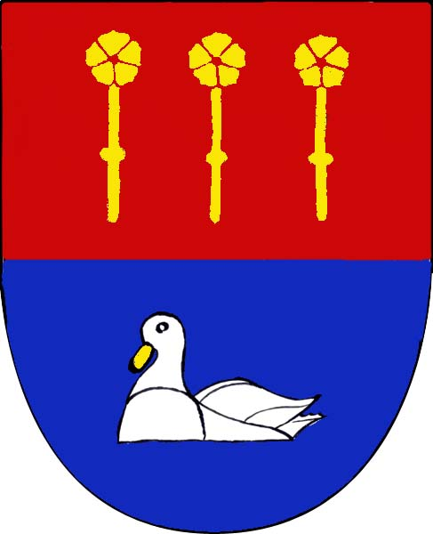 Municipal coat of arms of Kačice village, Kladno District, Czech Republic.